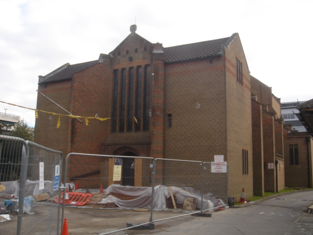 St Francis and St Anthony's Church: a Roman Catholic church in the town centre (notionally in the Northgate neighbourhood) of Crawley, West Sussex, England. Closed and under renovation on the date of the photograph.